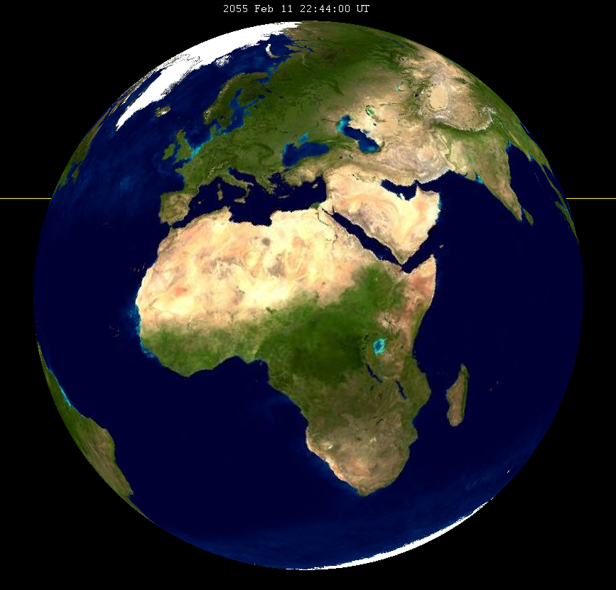 February 2055_lunar_eclipse view of earth The orientation of the earth as viewed from the center of the moon during greatest eclipse. thumb